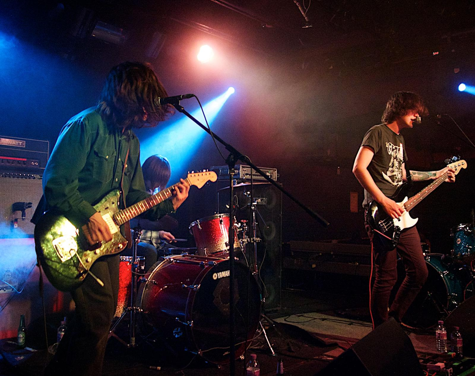 The Wytches live at Dingwalls, Camden, London.